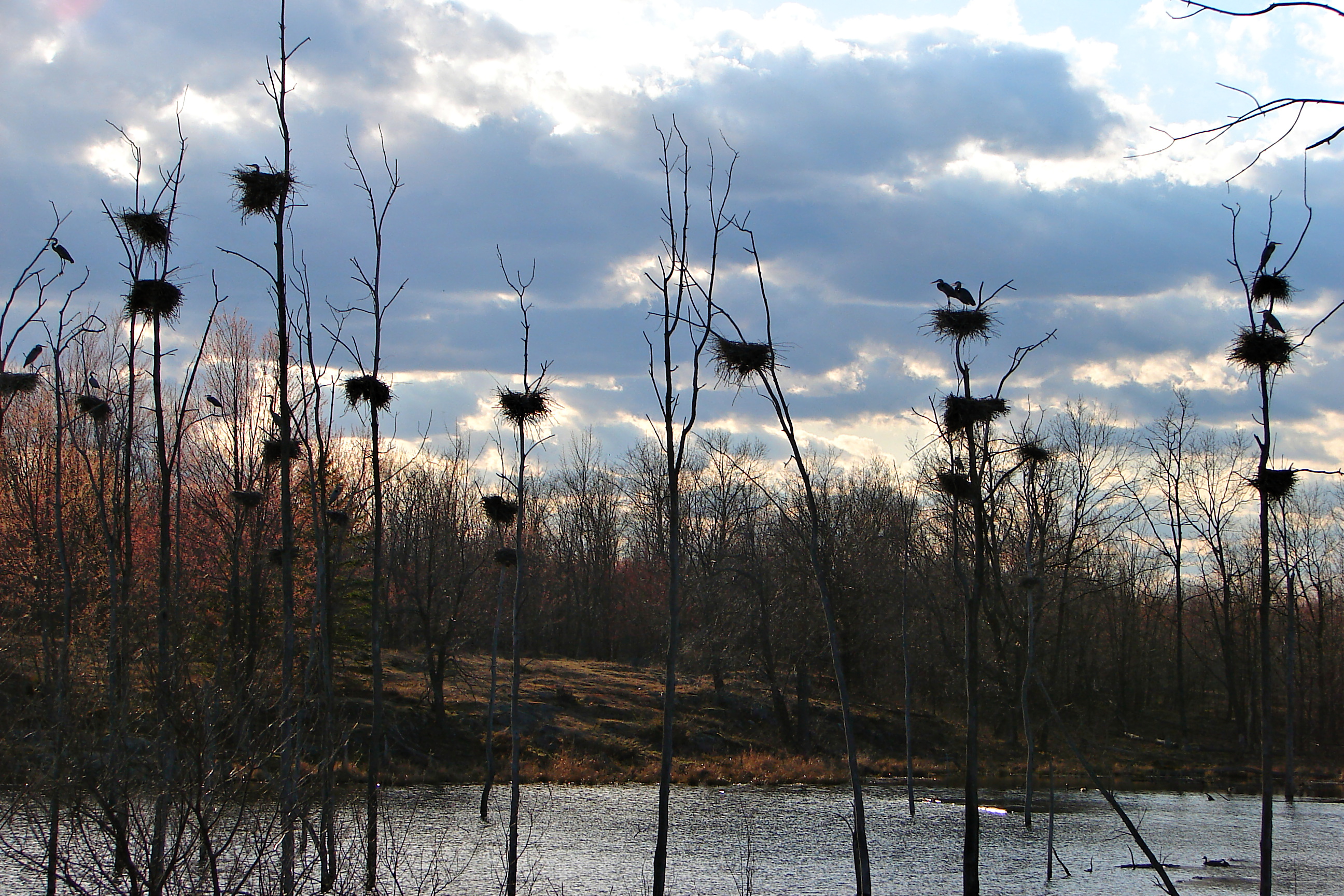 Great Blue Heron rookery on Carp Ridge, Ottawa, Ontario, Canada